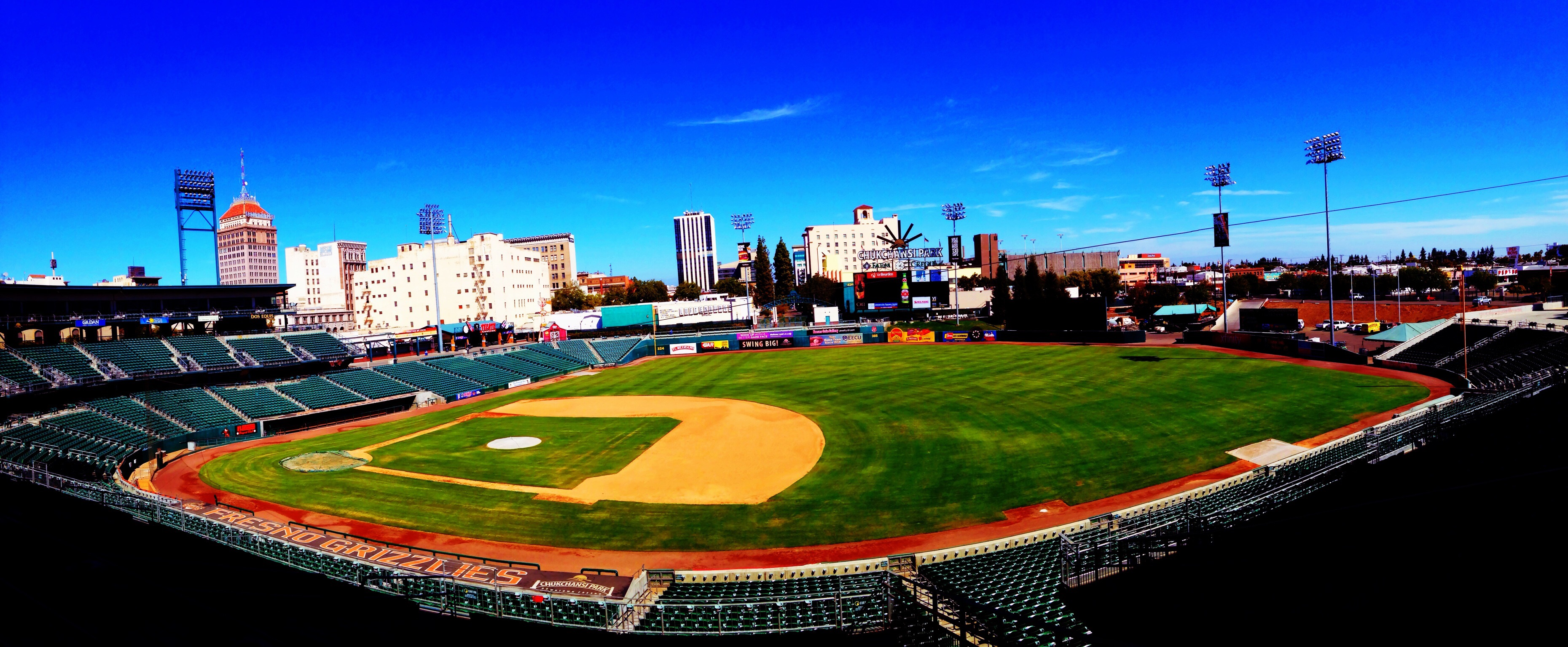 Downtown Fresno looking east from Chuckchansi Park